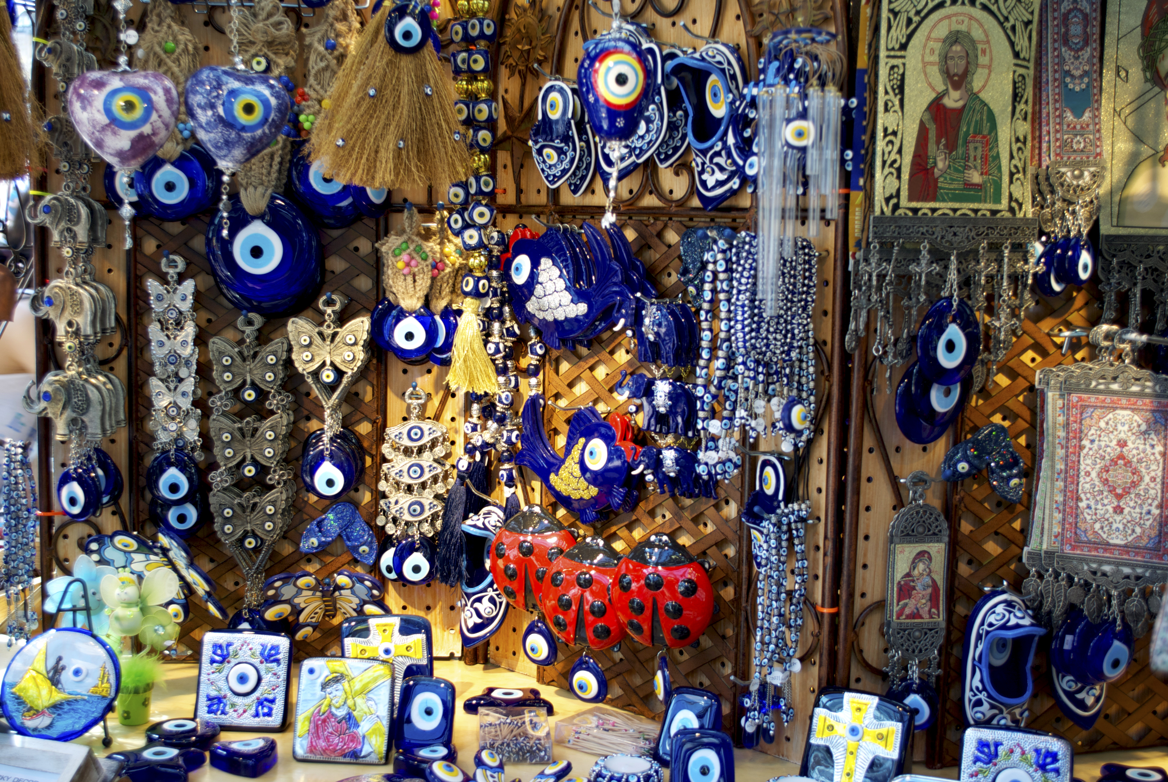 Nazars (Greek evil eye charms) sold in a shop in Quincy Market of Boston.